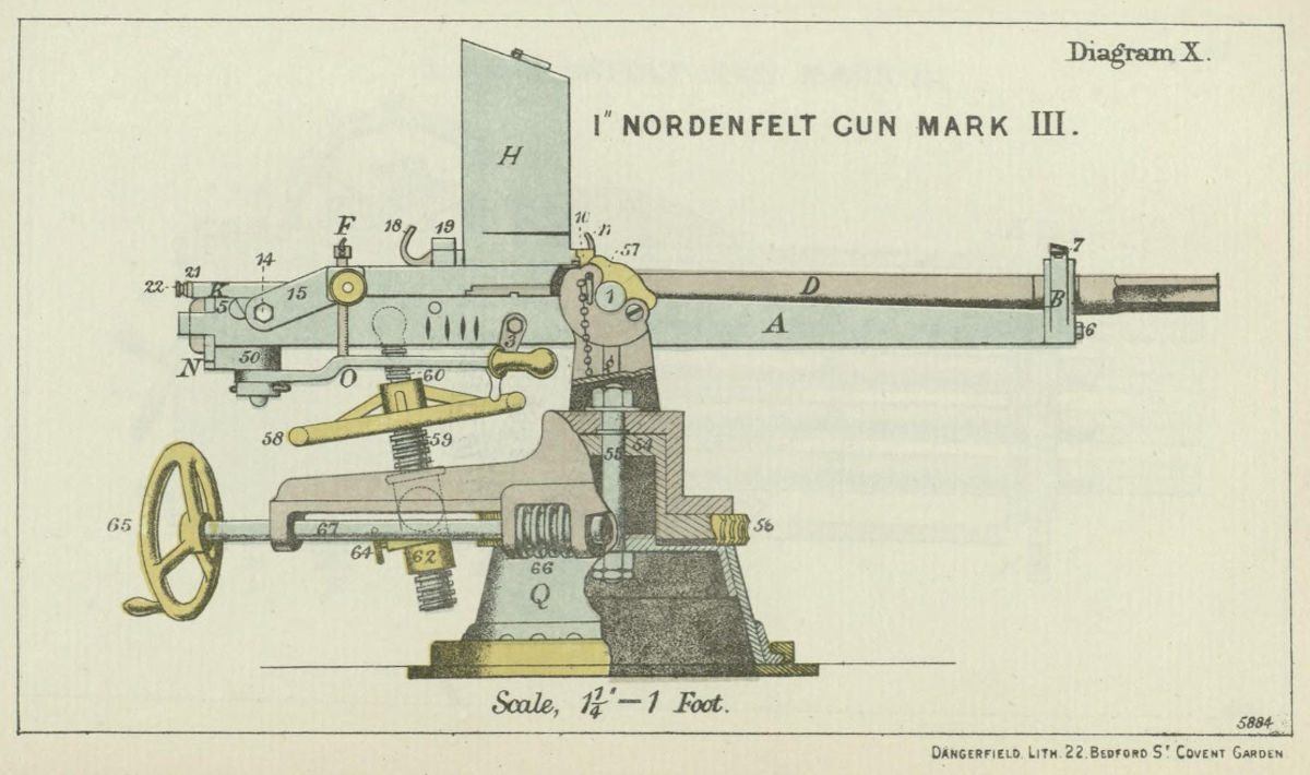 Right elevation diagram showing 1-inch 4-barrel Nordenfelt gun Mark III. For description of terms see : File:1 inch 4 barrel Nordenfelt Mark III nomenclature.jpg